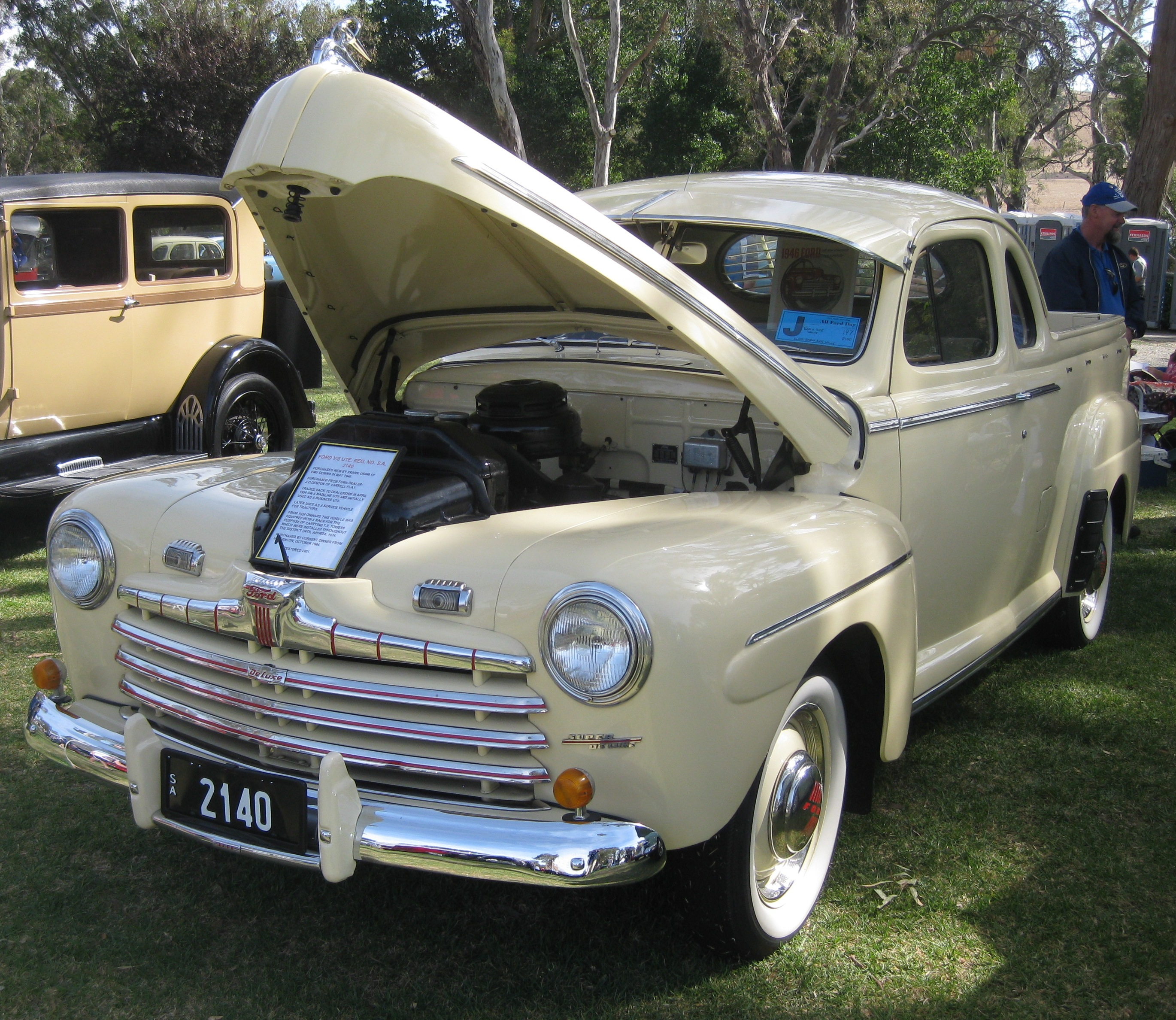 The 1946 Ford V8 Coupé Utility was developed by Ford Australia from the 1946 US Ford.